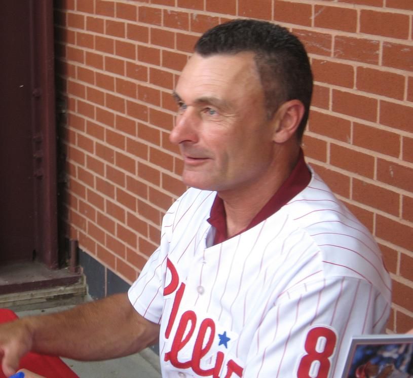 Jim Eisenreich signing autographs as part of Phillies Alumni Festivities on 2009-08-08